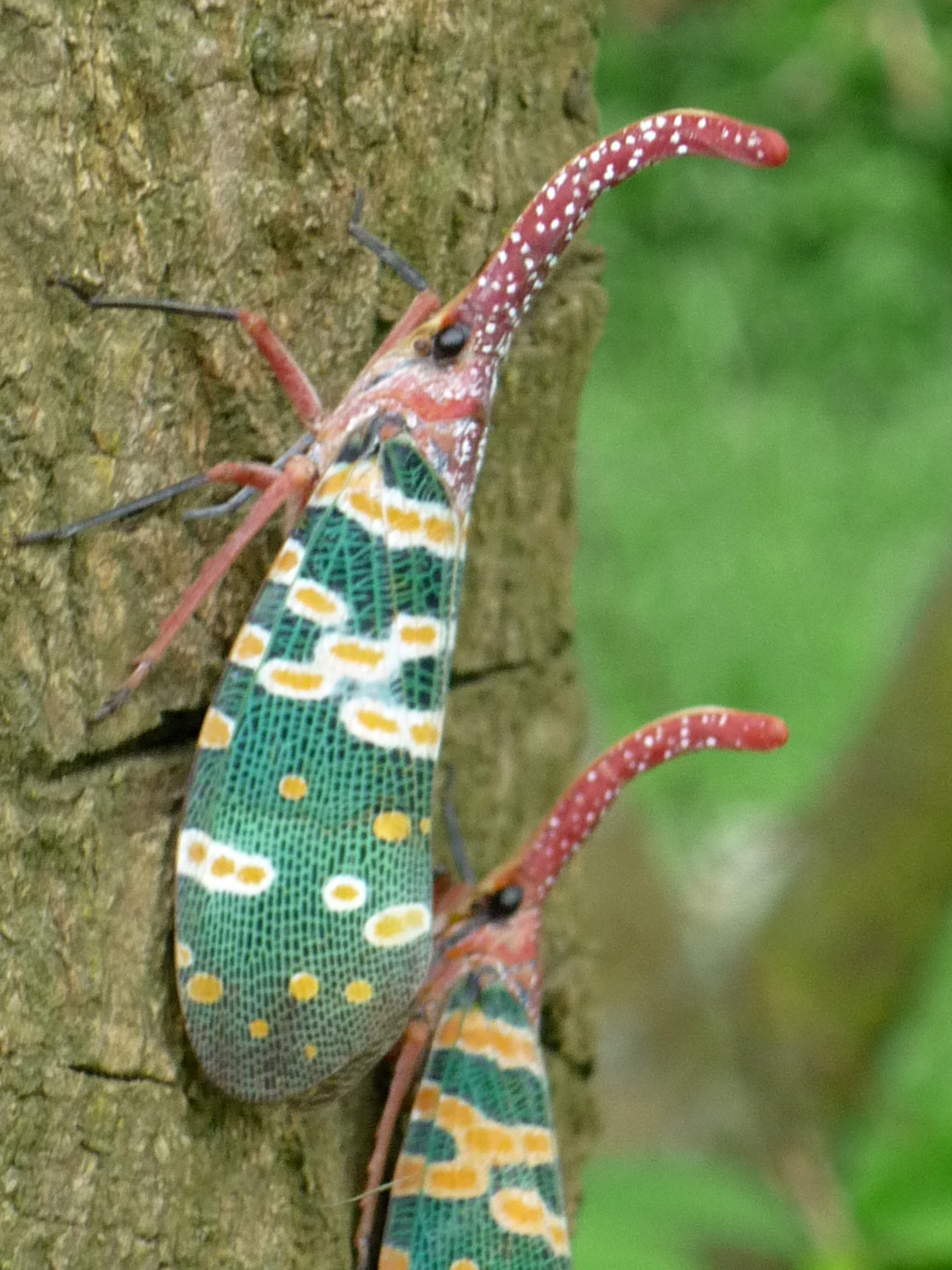 Insects in southern China, Guangdong province